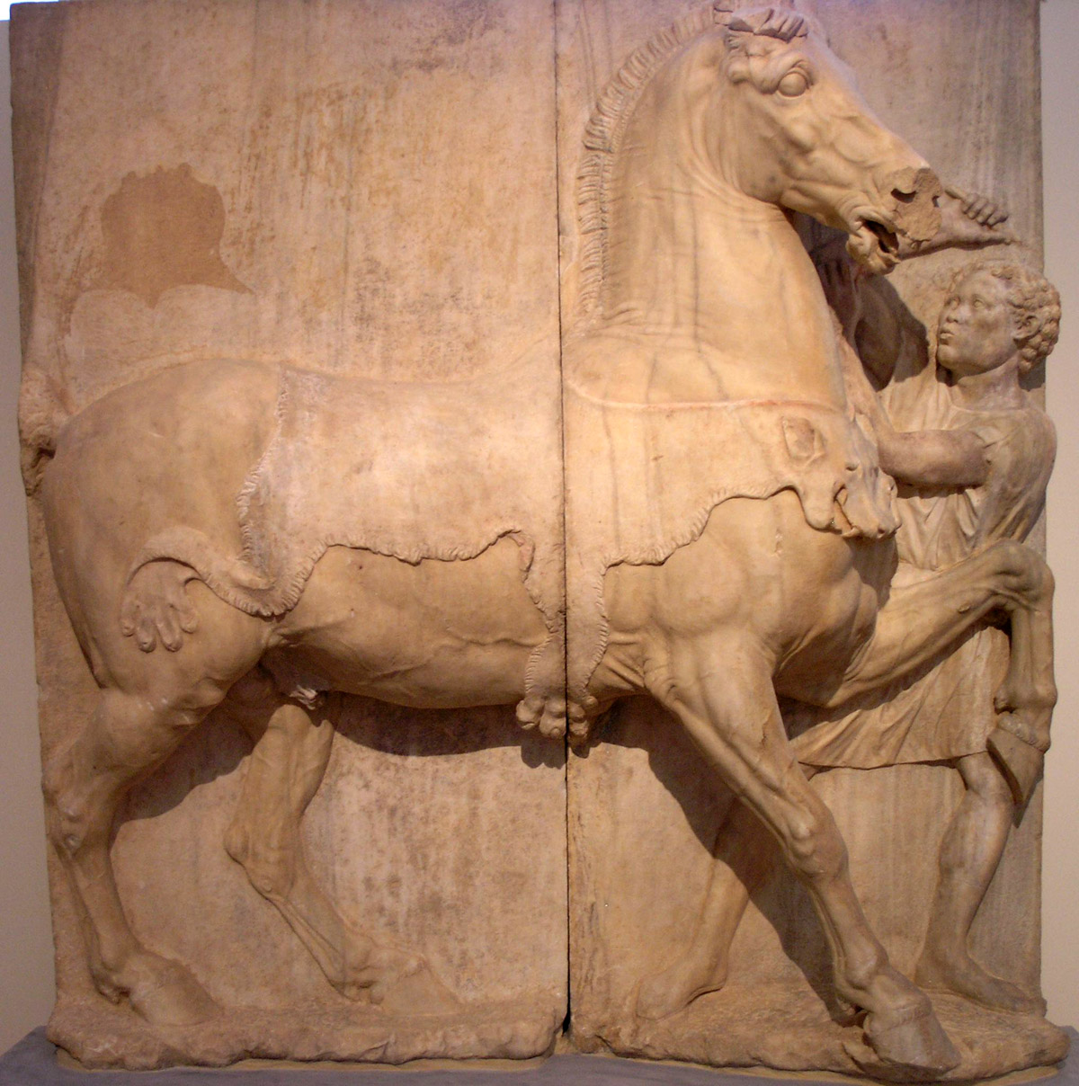 A young Ethiopian groom slave tries to calm a horse down. He holds a whip in his raised right hand and the reins in his left one. Funerary stele from Attica, right side of a two-panels relief. Pentelic marble, found near the Larisis railway station, date unknown (maybe 4th century BC or 1st century BC). If belonging to the later date, may have been made in hounour of king Mithridates of Pontus.